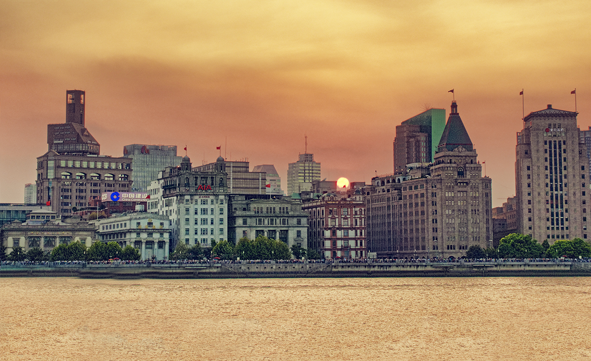 This is an image taken at sunset at Bund in Shanghai.